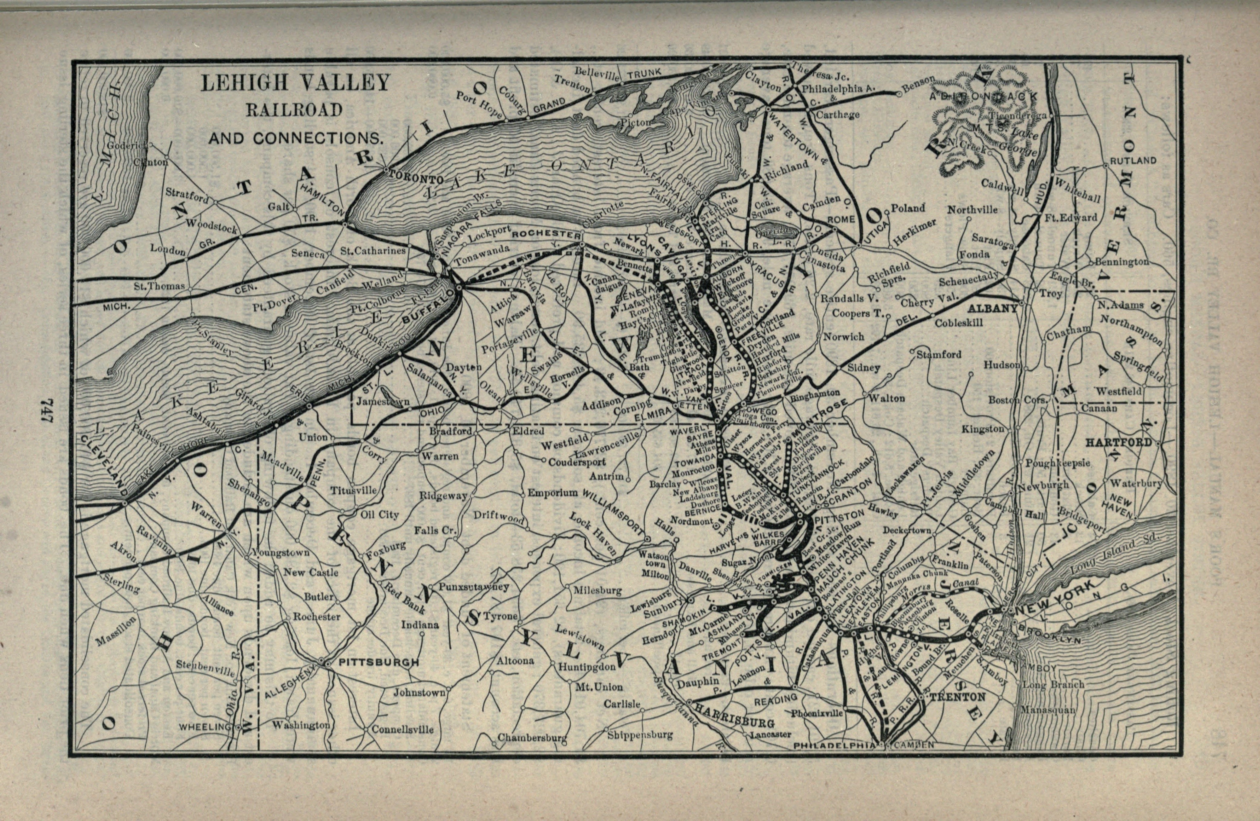 Lehigh Valley Railroad